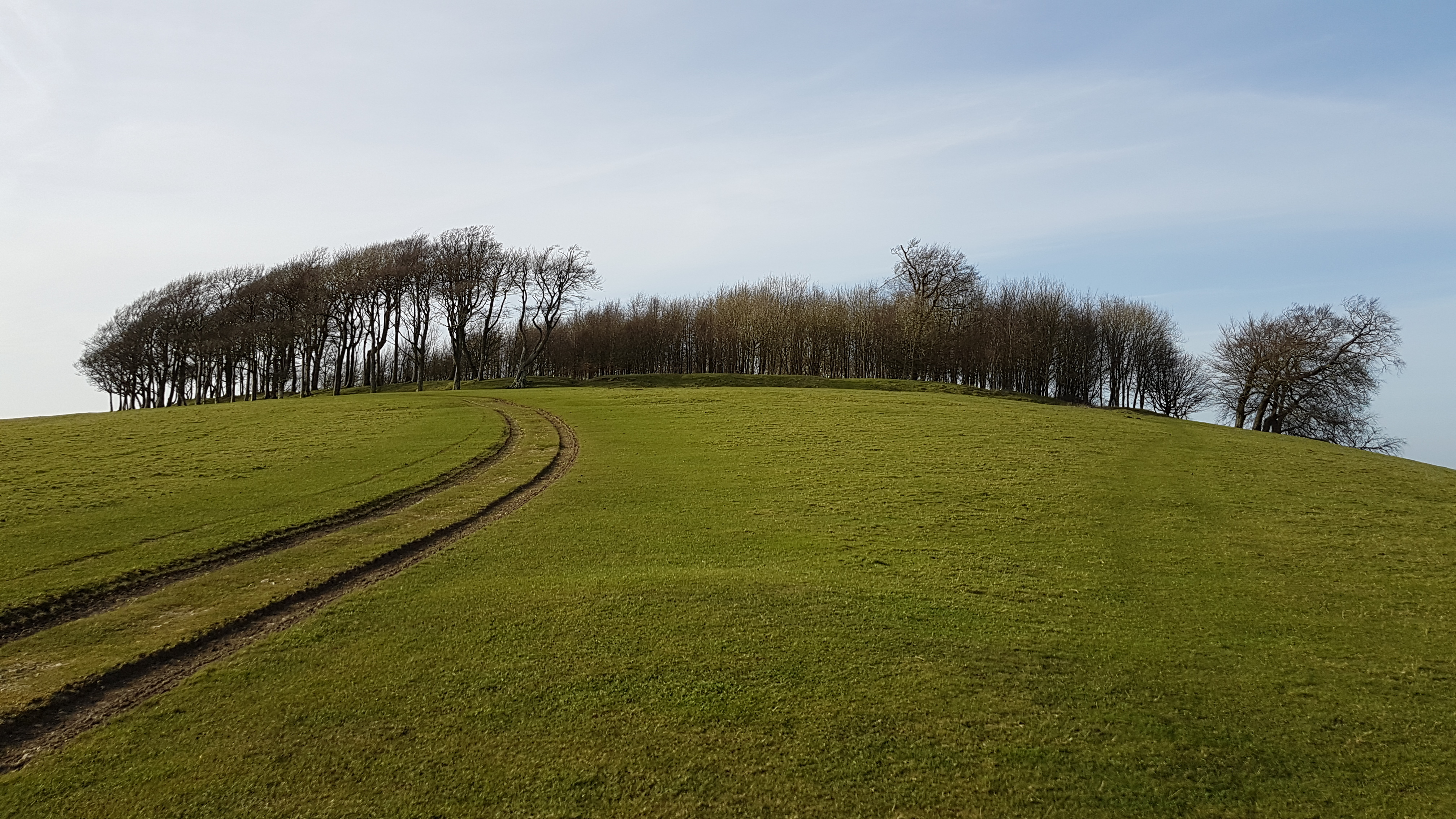 View of Chanctonbury Ring from the south-east, with the bank and south-east entrance visible